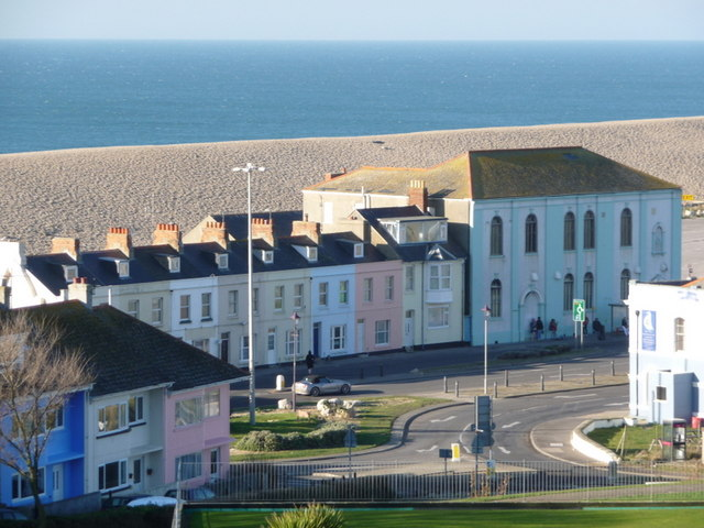 Portland: view down over Chiswell. Looking down over Victoria Gardens towards Chiswell, with Chesil Beach a dramatic backdrop.